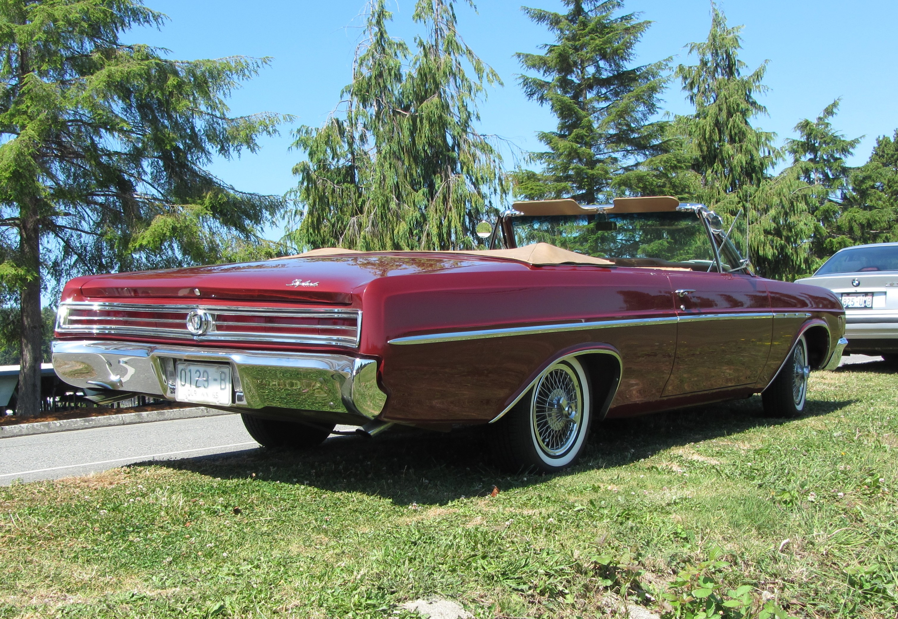 Seen parked near the car and boat show in LaConner, Washington